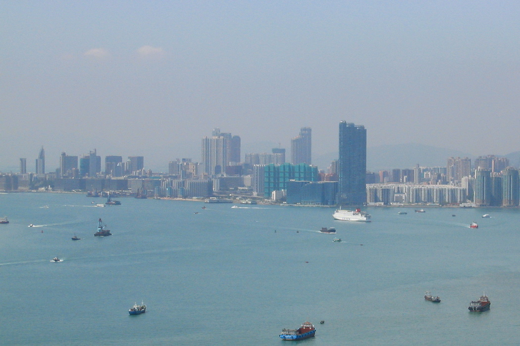 九龍半島-尖東至zh:紅磡一帶 East Tsim Sha Tsui & Hung Hom, Kowloon Peninsula